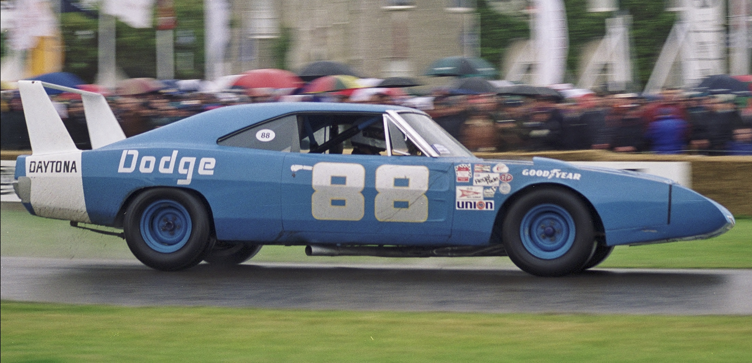 NASCAR Dodge Charger Daytona "Fake 88"clone ( year 1969) - 1998 Goodwood Festival of Speed